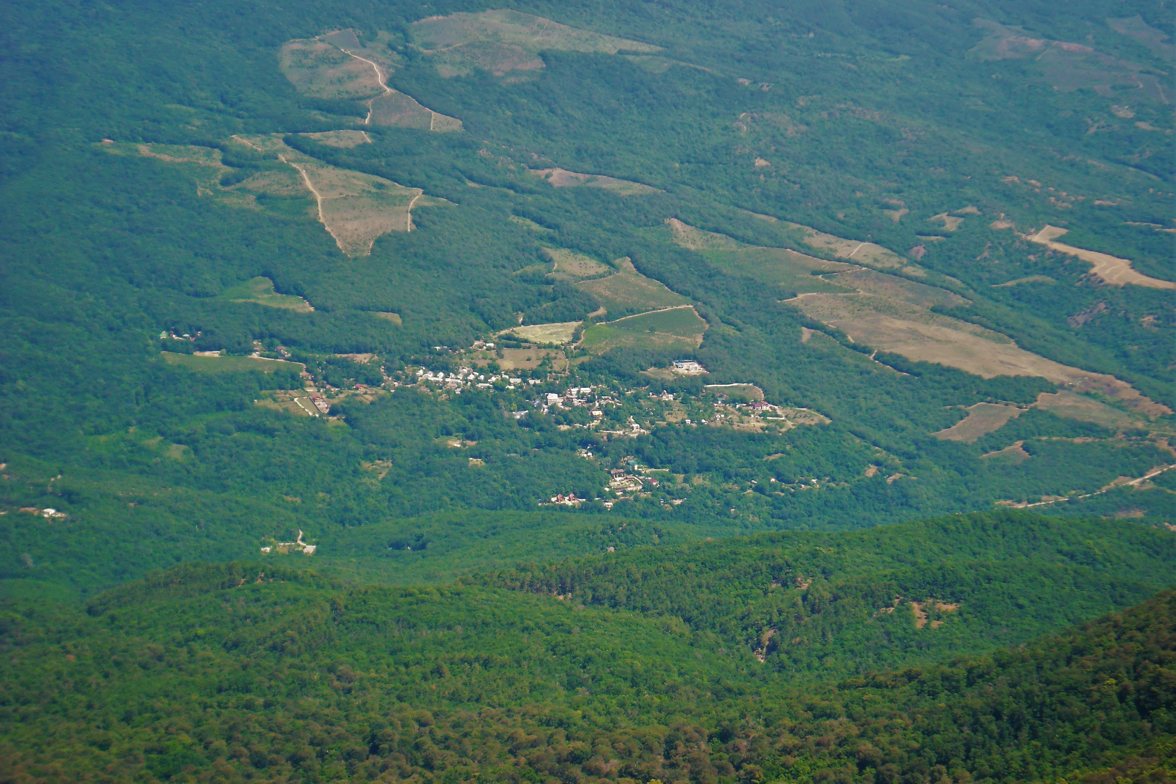 Rozoviy village, view from Chater-Dag. Crimea